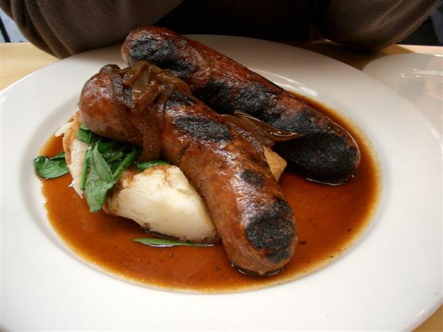 Photo of Bangers and mash, taken with a Casio EX-Z3. Copyright avlxyz. Mac's Hotel, Melbourne, Australia.